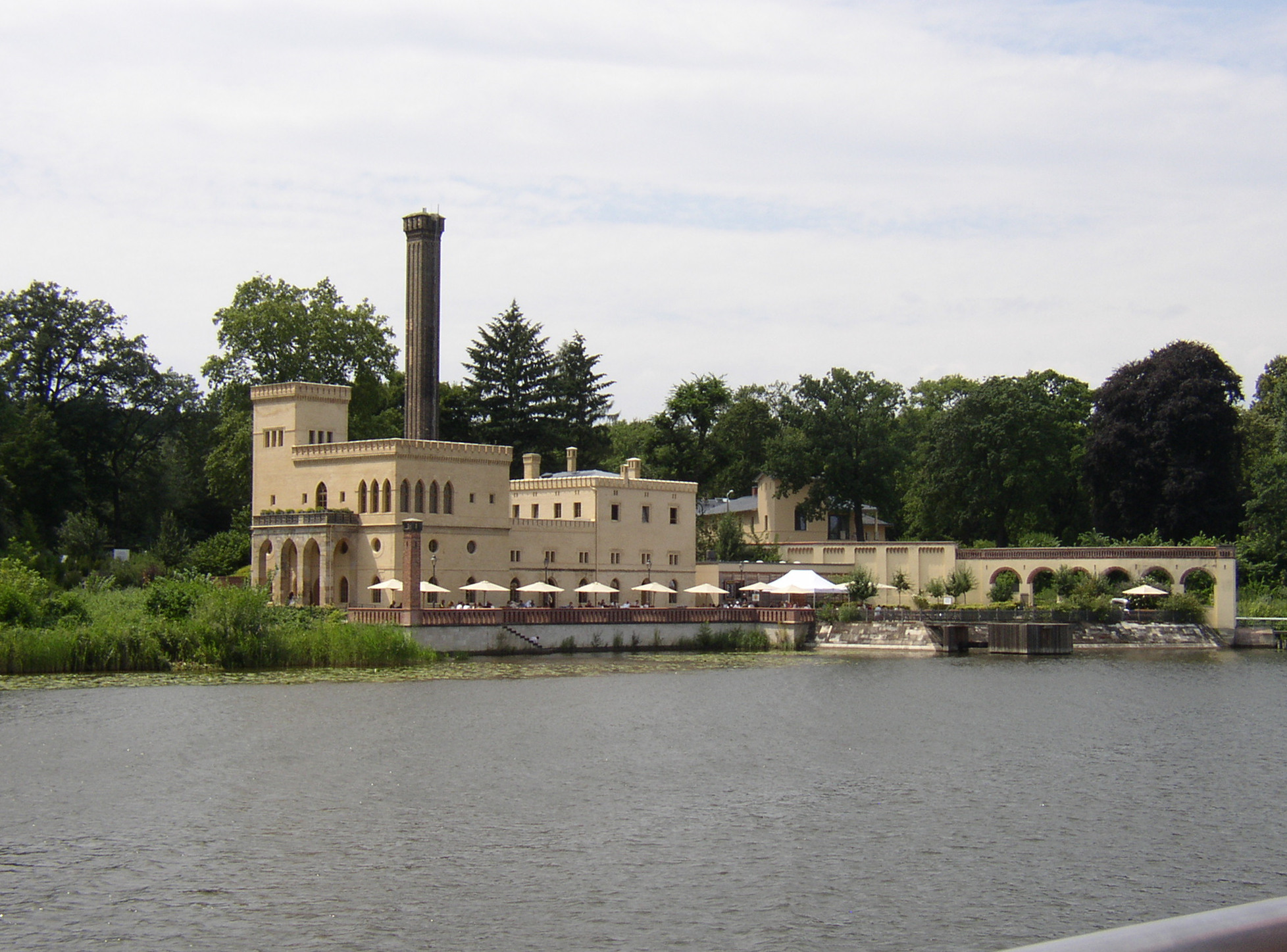 The Old Dairy-Farm on River Havel (Alte Meierei)